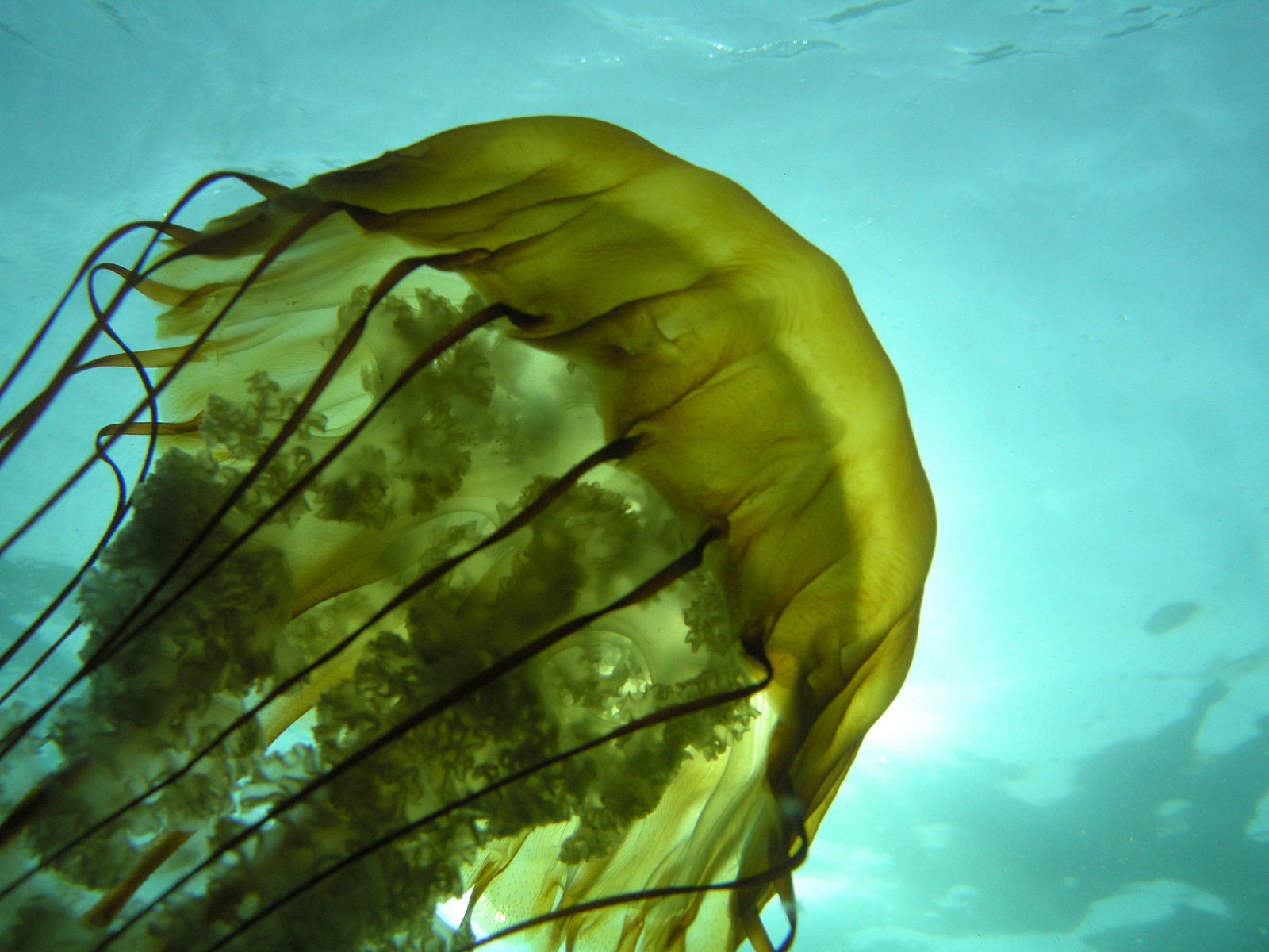 Chrysaora fuscescens (commonly known as the Pacific sea nettle or West Coast sea nettle)